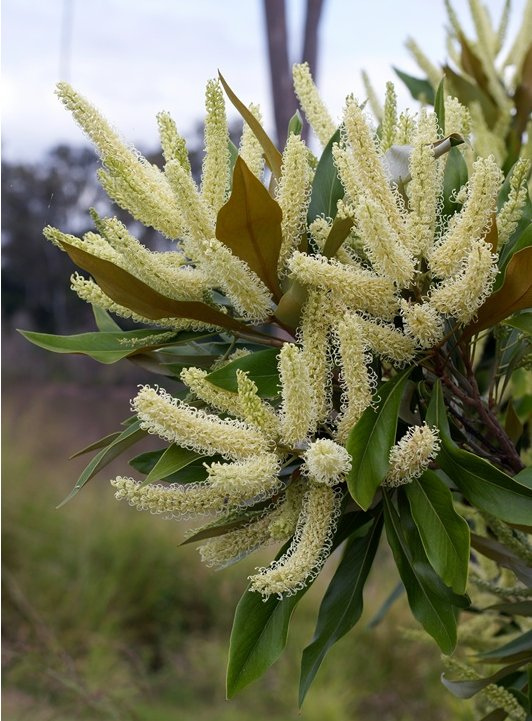 Family : Proteaceae Australian rainforest native tree Flowers are similar to Buckinghamia celsissima ( Ivory Curl) and to other grevilleas, but note - this palnt leaves underside having a rusty or bronze sheen. This is a particularly useful diagnostic point in the growing period. Juvenile leaves have 5-9 broad lobes but adult leaves are simple, glabrous above and finely silky beneath. Also it flowers at a different time from Ivory Curl